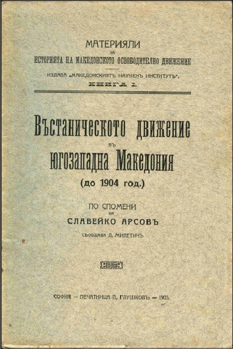 Slaveyko Arsov's Memoirs